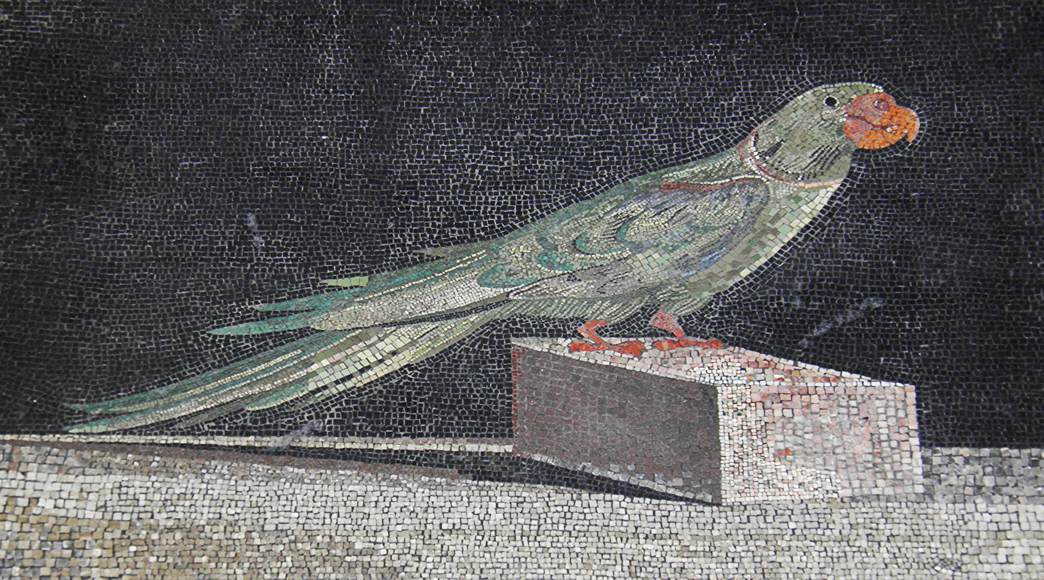 The species Alexandrine parakeet or Alexandrian parrot (scientific name Psittacula eupatria, noble fatherland or of noble ancestry) is named after Alexander the Great, who is said to have first sent several of the birds from the Punjab to the west, where they became popular as exotic pets of rich and noble families. The Hellenistic mosaic floor panel, made in Pergamon around the middle of the 2nd century BC (the time of Eumenes II and Attalus II), was taken from the "altar room" of Palace V of the Pergamon Acropolis. The type of mosaic found in some of Pergamon's ancient buildings is known as opus vermiculatum (Latin, worm-like work), a technique invented in Greece, in which images are made of rows of coloured tesserae (small cube-shaped pieces of stone, and later also of glass). The subtle colouring of the mosaics imitated painting. Individual motifs, including mythical figures, animals and plants were surrounded by dark tesserae, which highlight the vibrant colours. Often, outlines marked by rows of tessarae were used as contours or to further heighten the pictorial effect, as in drawing. This mosaic artist has used only colour and tone for his subject in a painterly manner, resembling trompe l'oeil realism.